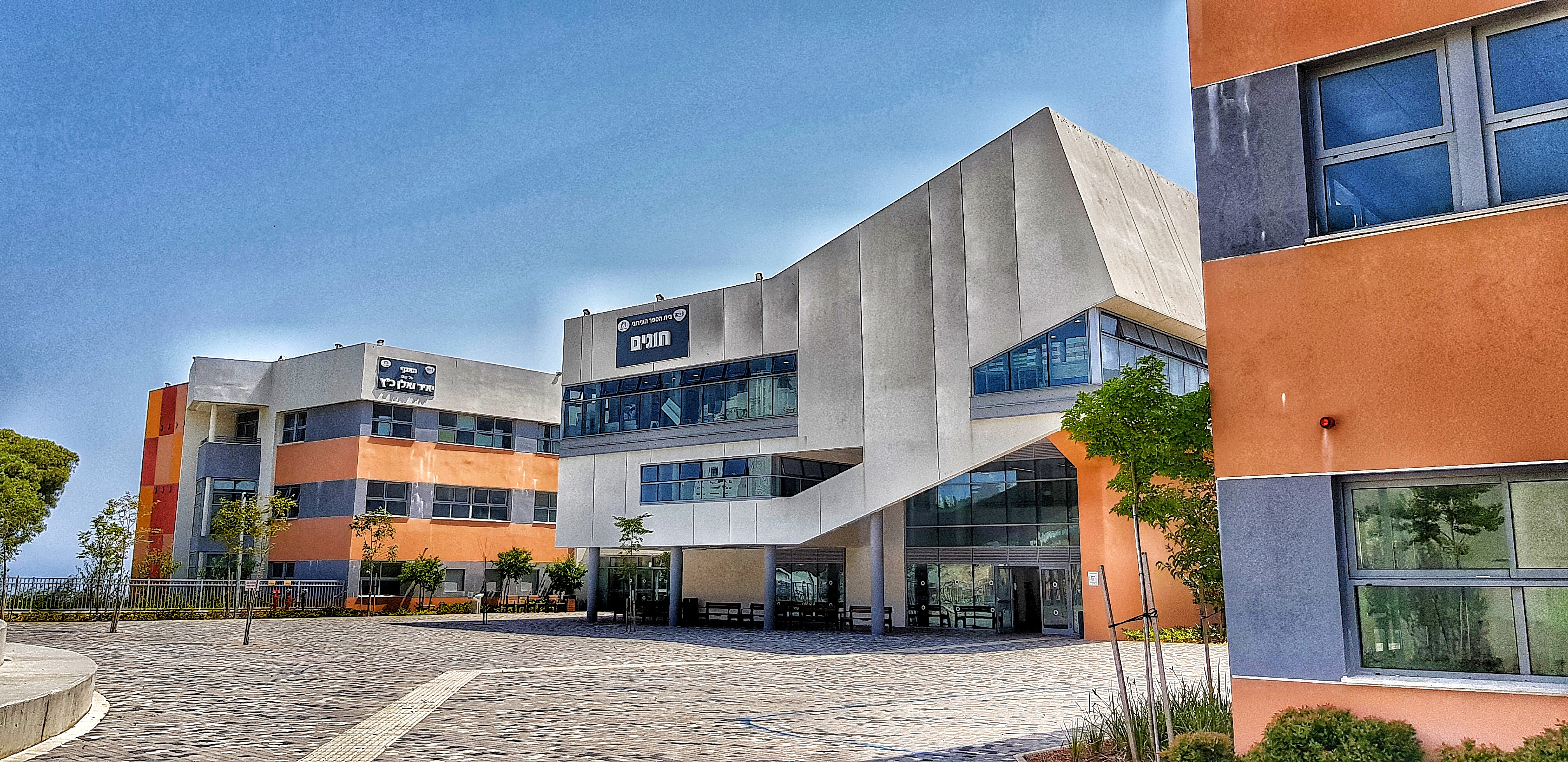 Hugim high school, Haifa